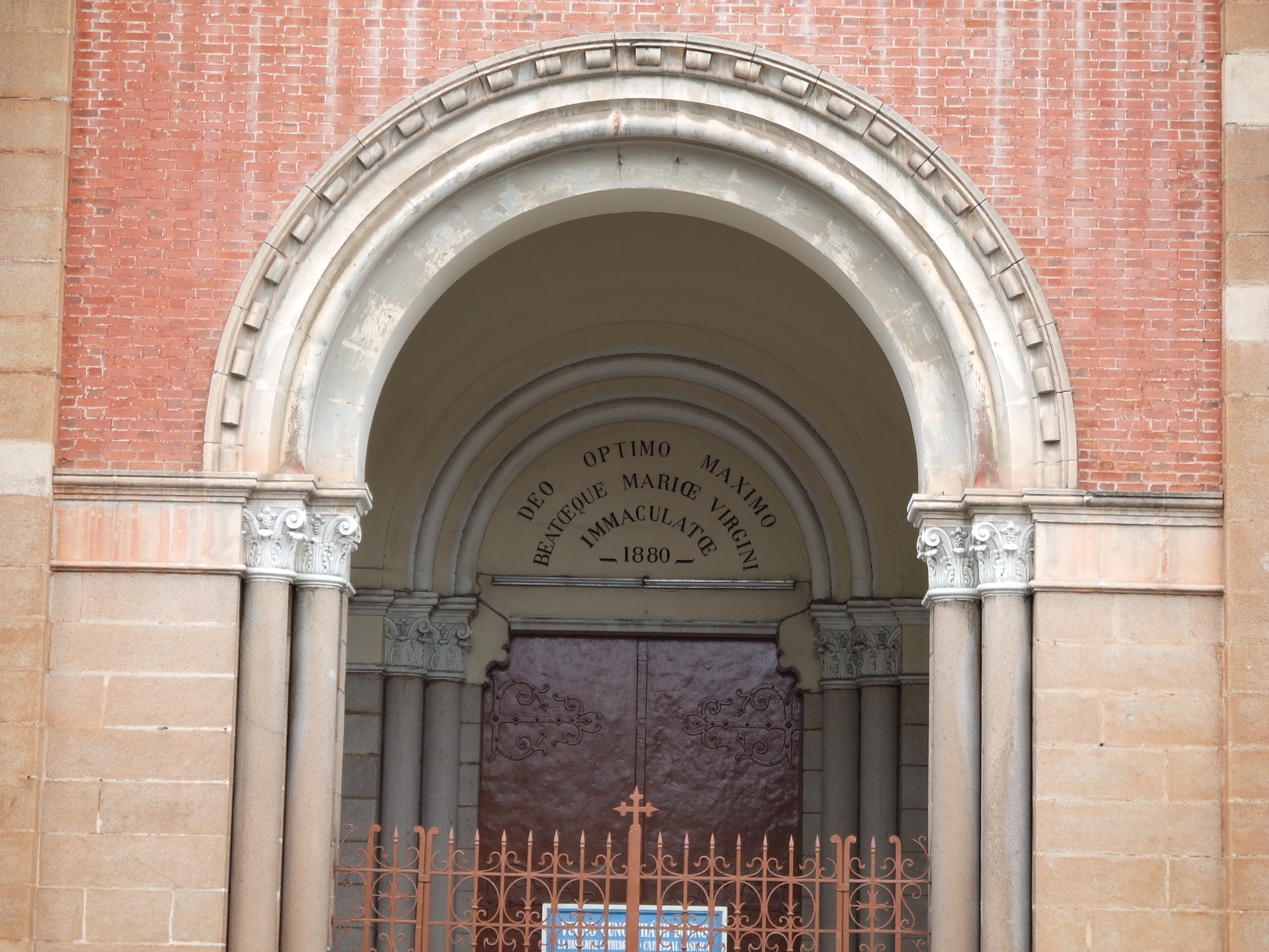 Notre Dame Cathedral in Ho Chi Minh City